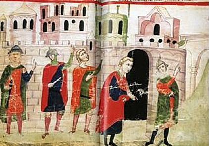 Florence